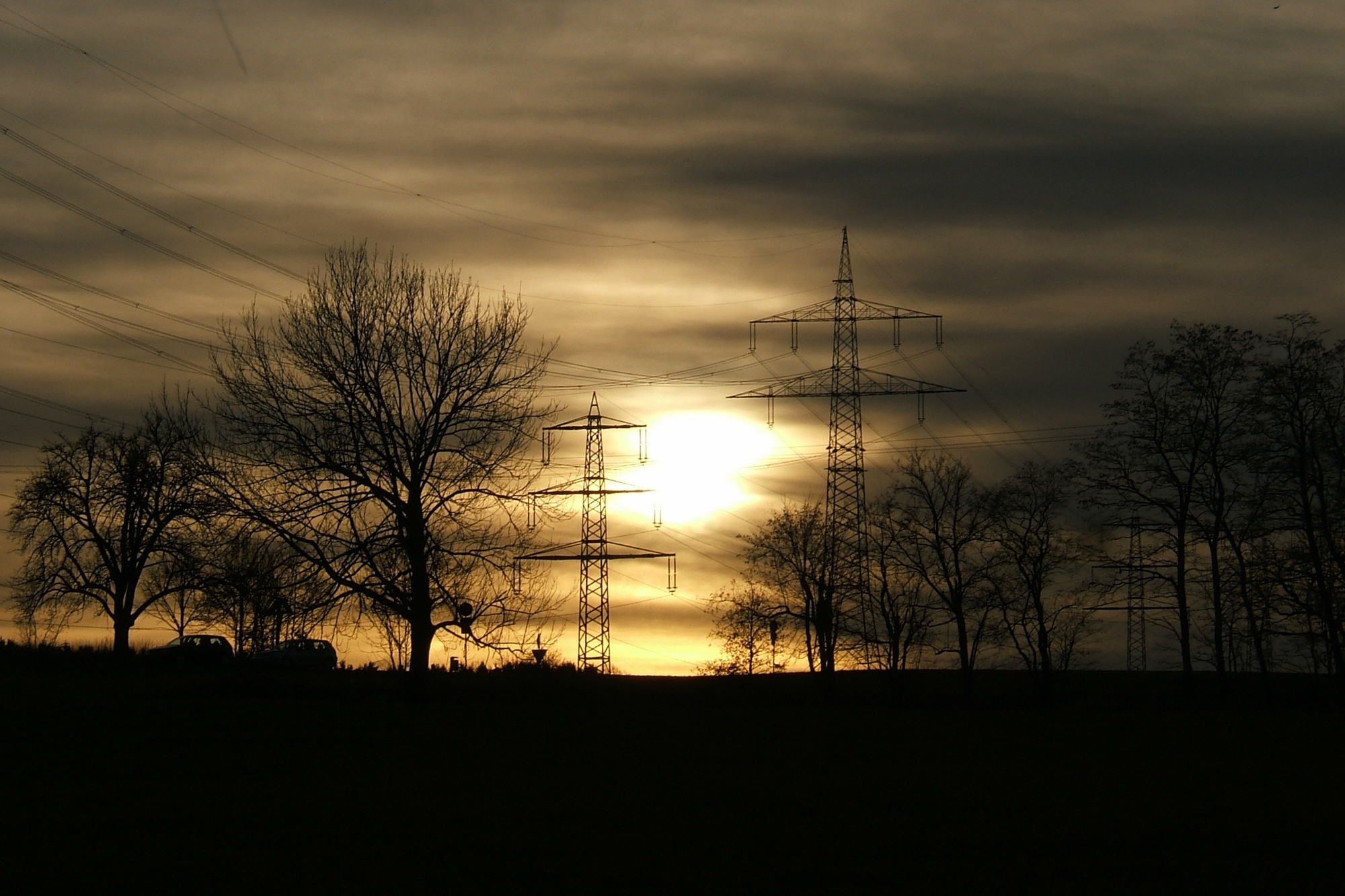 Nature and technics in atmospheric coexistence. Schlichemtalsperre in Schömberg, Zollernalbkreis, Baden Württemberg, Germany, Sunset seen from the westside of the lake